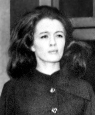 Christine Keeler goes to court today.